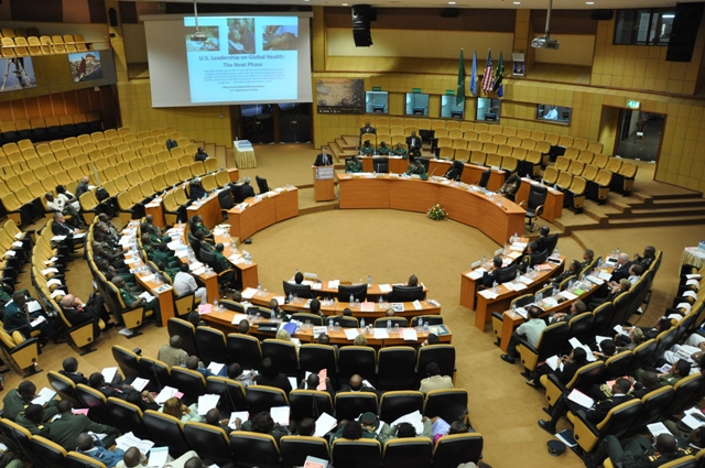 ARUSHA, Tanzania - Nearly 300 participants of the International Military HIV/AIDS Conference in Arusha, Tanzania, listen to a presentation by Thomas Walsh, Office of the U.S. Global AIDS Coordinator, April 12. Representatives from 60 multinational militaries, the U.S. Department of Defense, U.S. Africa Command, and non-governmental organizations were in attendance to develop a joint strategy for combating this global pandemic. The conference was co-hosted by the Tanzania People's Defence Forces and the U.S. Department of Defense. (Photo by Danielle Skinner, U.S. Africa Command)